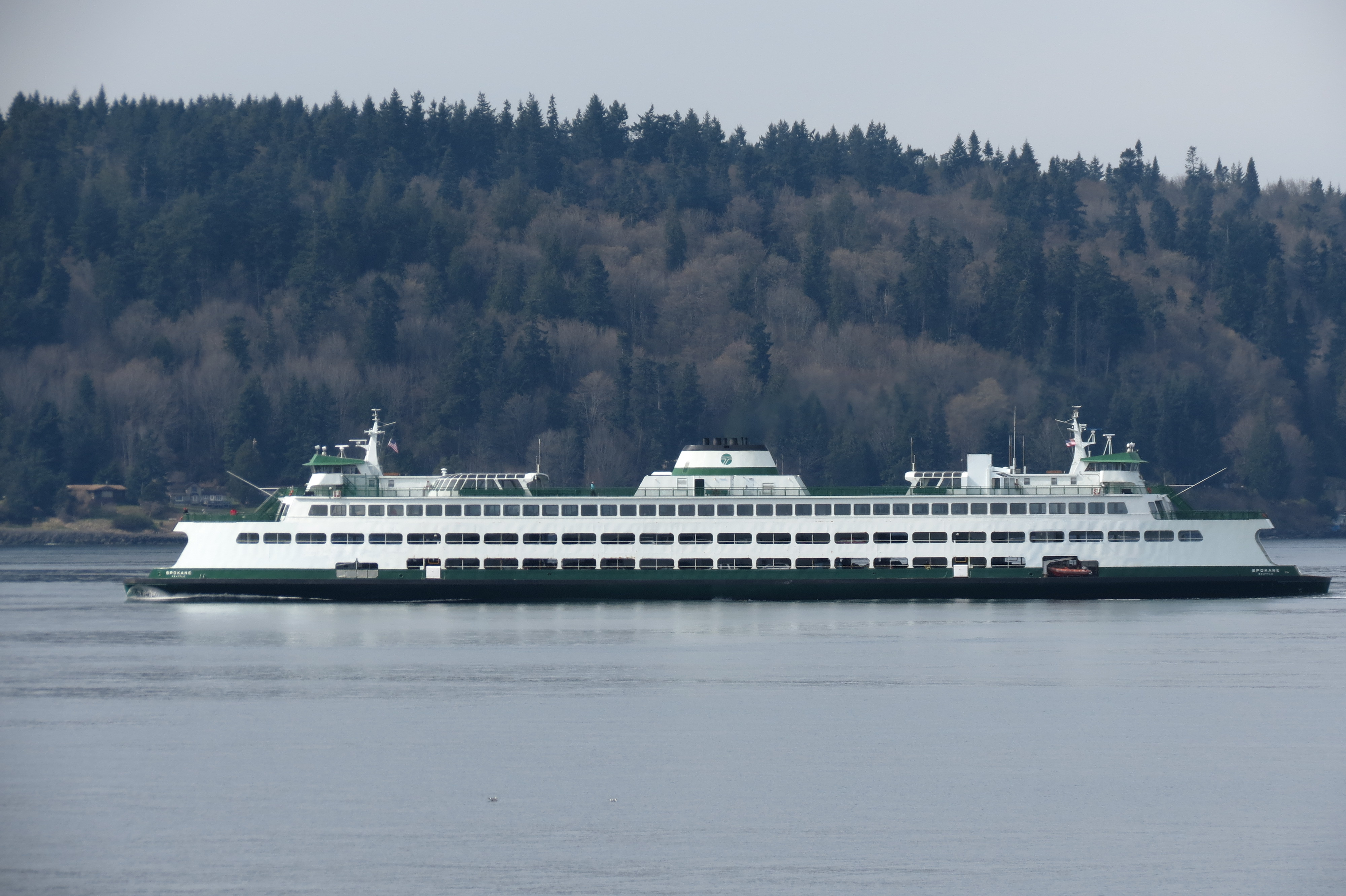 The ferry Spokane sailing to Kingston. Photo taken from the ferry Puyallup.